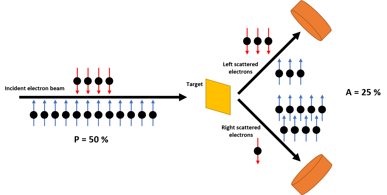 An electron beam with polarization equal to 50% is scattered at the same angle to the right and to the left of the target. Due to Mott scattering, with a supposed Sherman function of 0.5, the resulting asymmetry is 25%